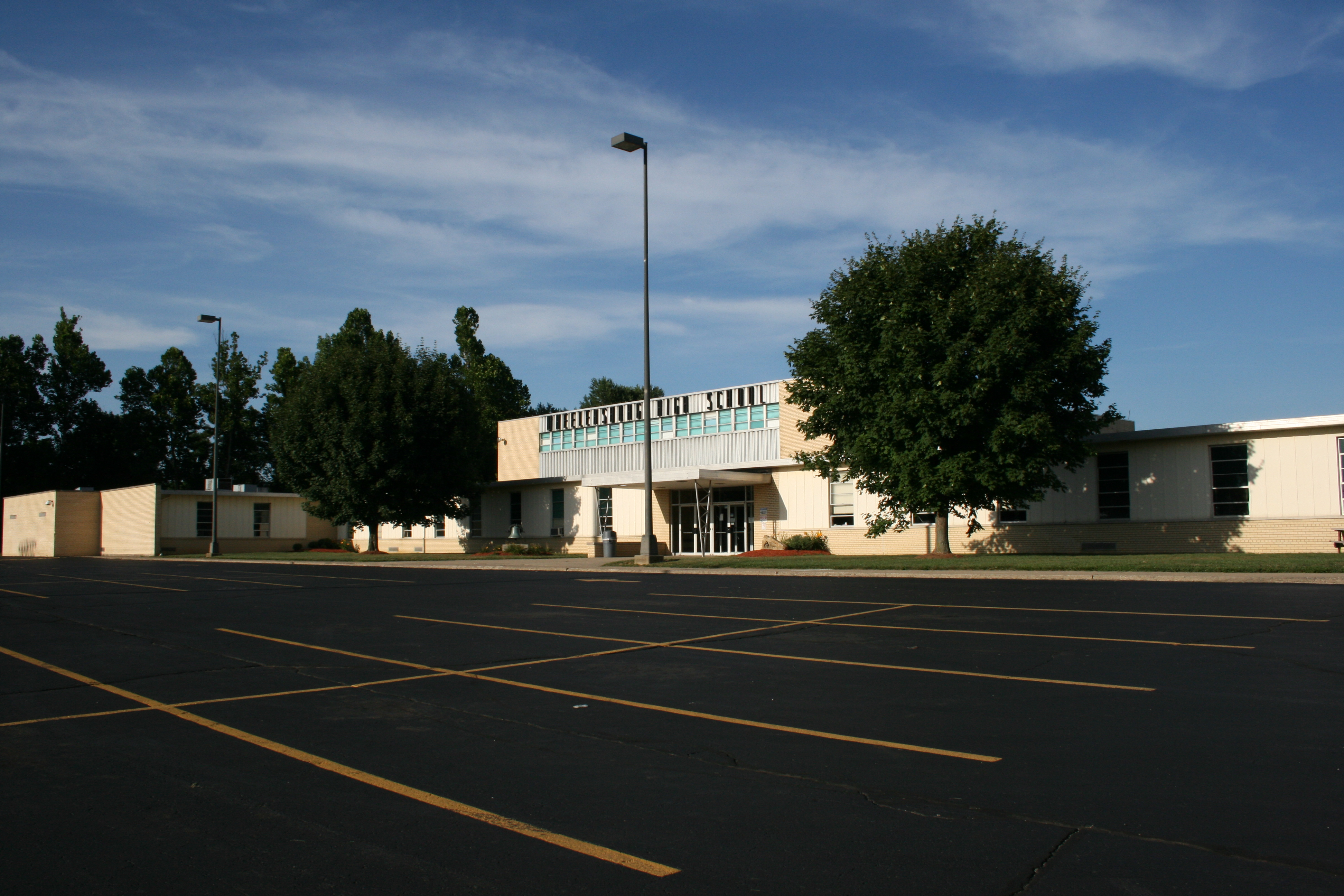 Western front of Wheelersburg High School, seen from near the end of Dorrene Drive in Wheelersburg, Ohio, United States.